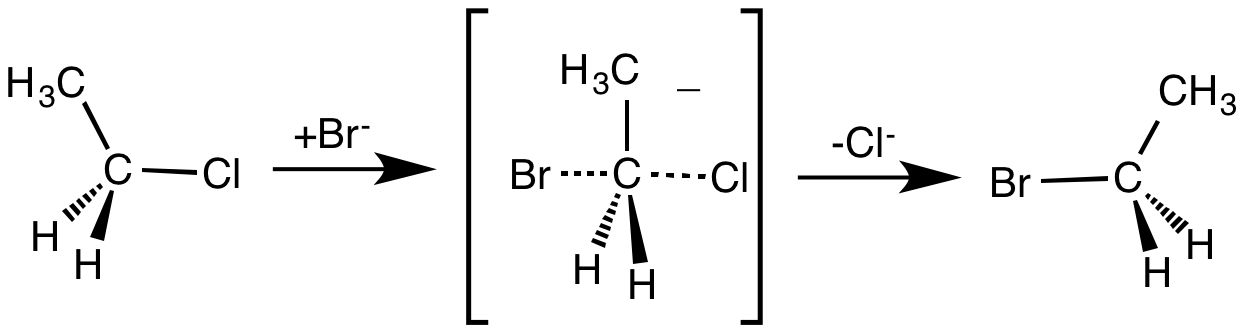 new example of SN2 rxn, perhaps simpler